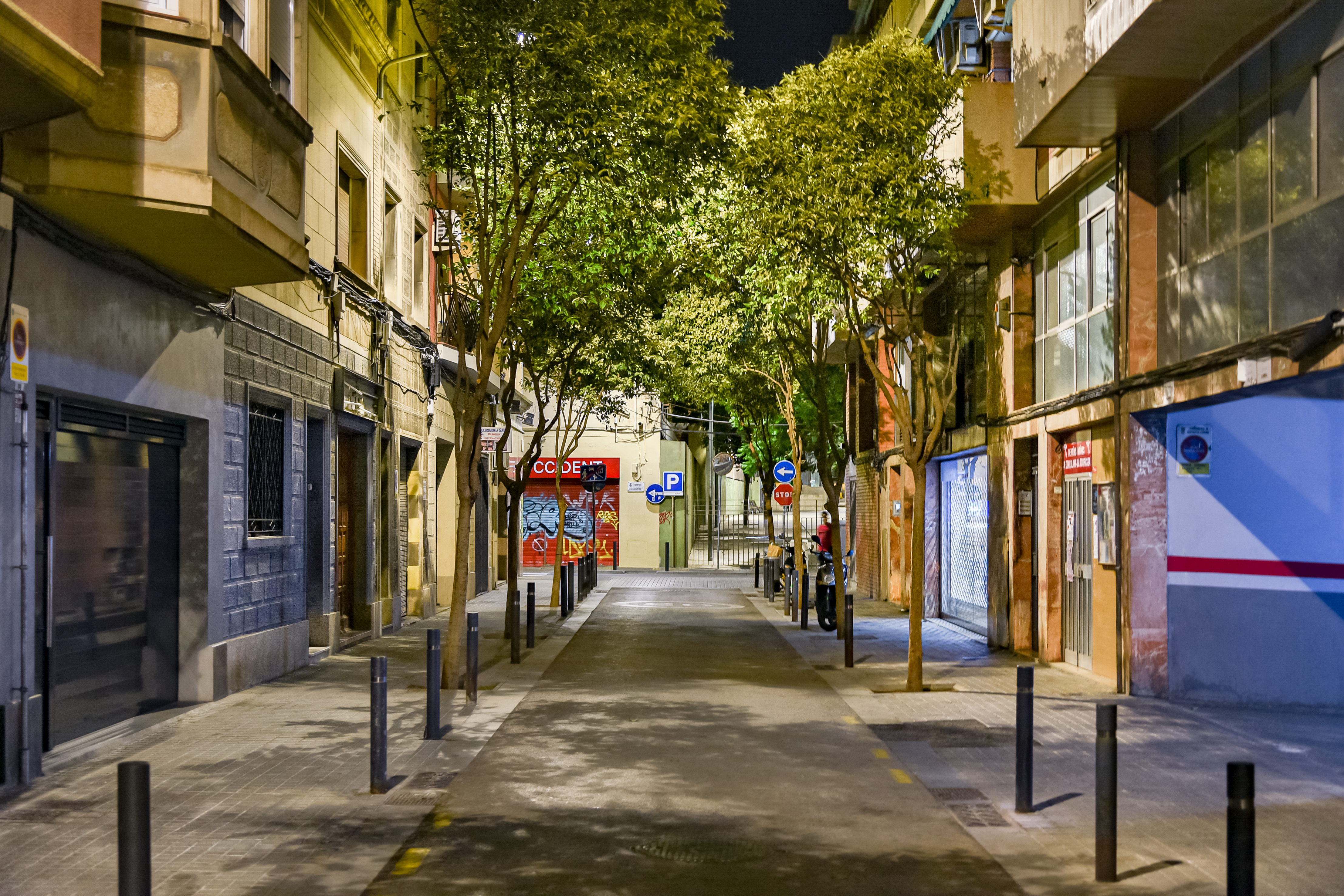 Carrer de Besa (L'Hospitalet de Llobregat, Barcelona, Spain)